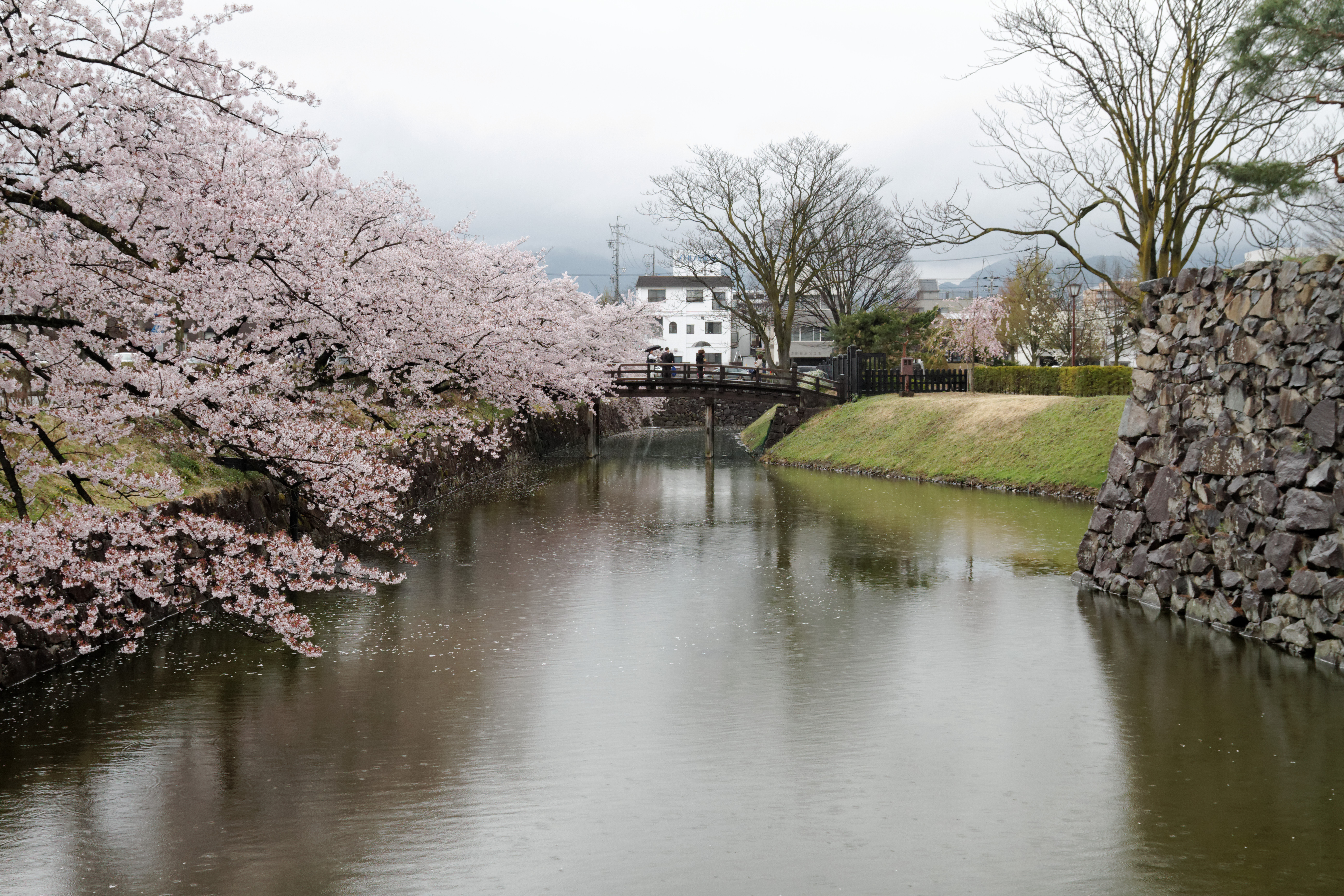 Matsumoto castle